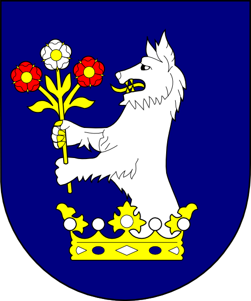 Coat of arms (shield only) of Antal Révay, bishop of Rožňava, Slovakia (1776 - 1780), bishop of Nitra, Slovakia (1780 - 1783). Based on hise seal and relief in Radošina (wolf from the family arms has no tail).